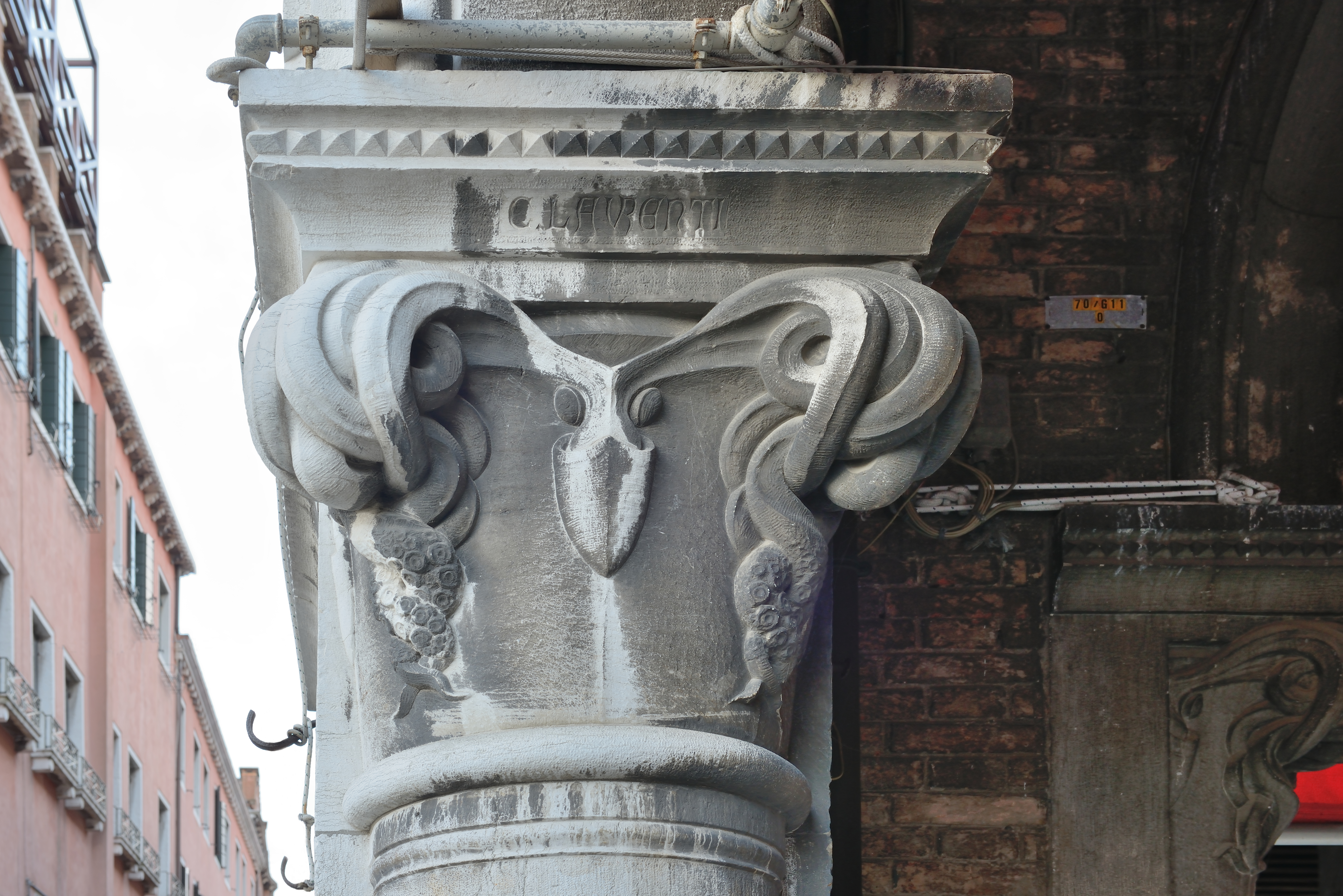 Capital by Cesare Laurenti Rupolo at the Pescaria fish market (Gothic Revival, 20th century) in Venice